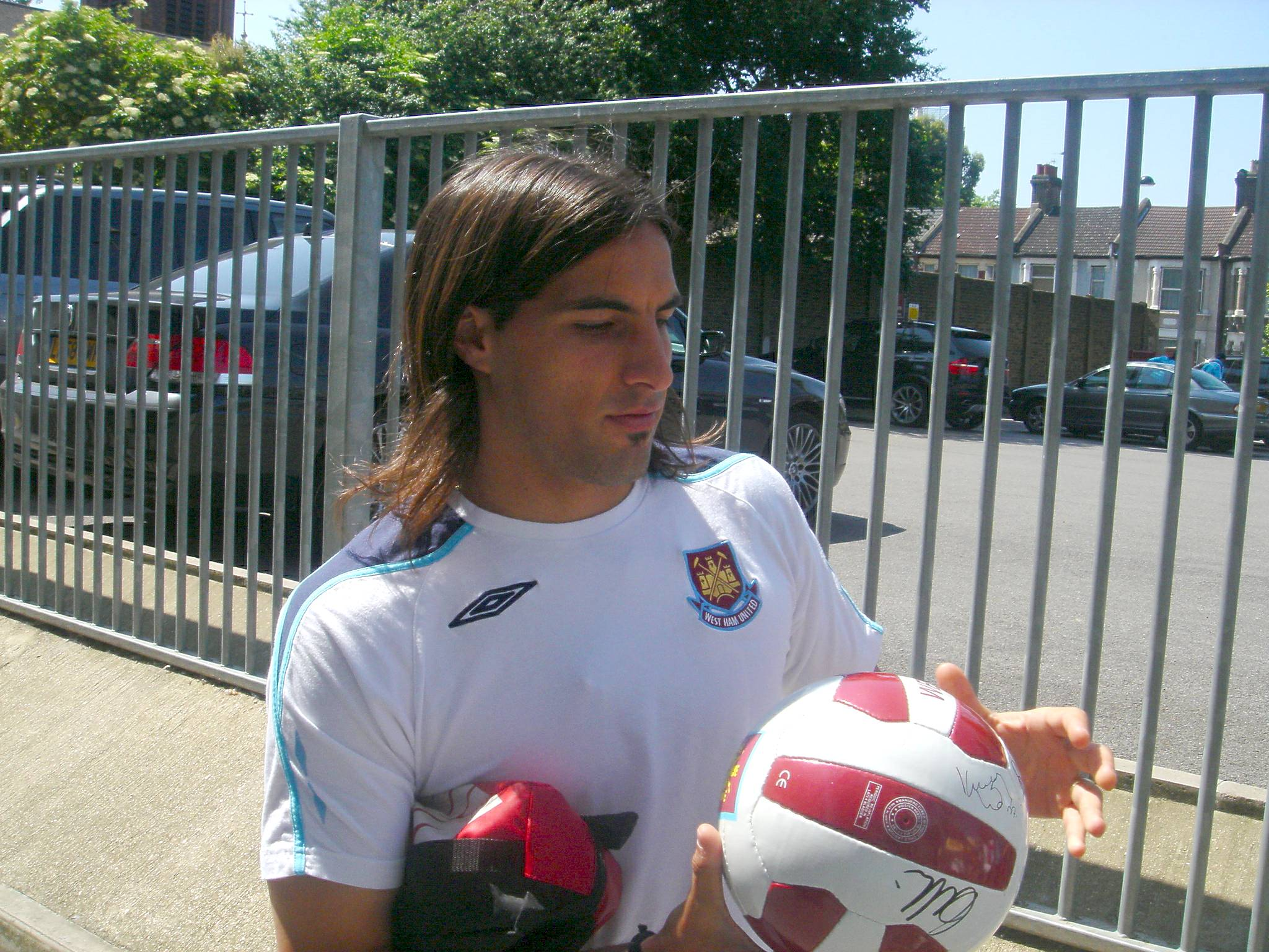 West Ham football Walter López signing for fans at Upton Park before West Ham's 2-1 win against Middlesbrough on 24/5/9